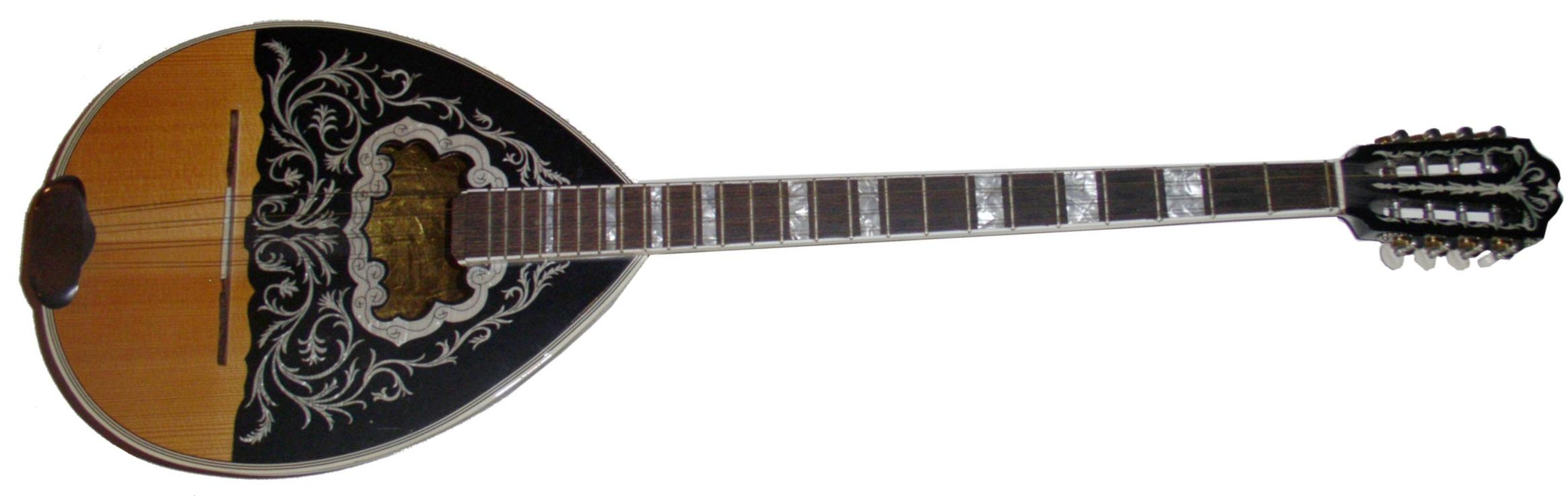 Greek bouzouki